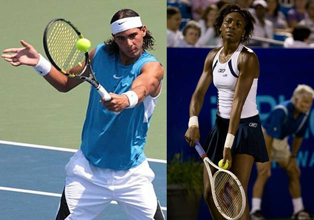 Wimbledon Champions: Merged from Image:Venus Williams WTT.jpg and Image:Nadal-2006.2.jpg